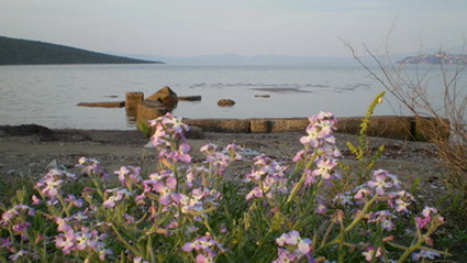 Early christian ruins on Paliomagaza beach near Kyparissi.